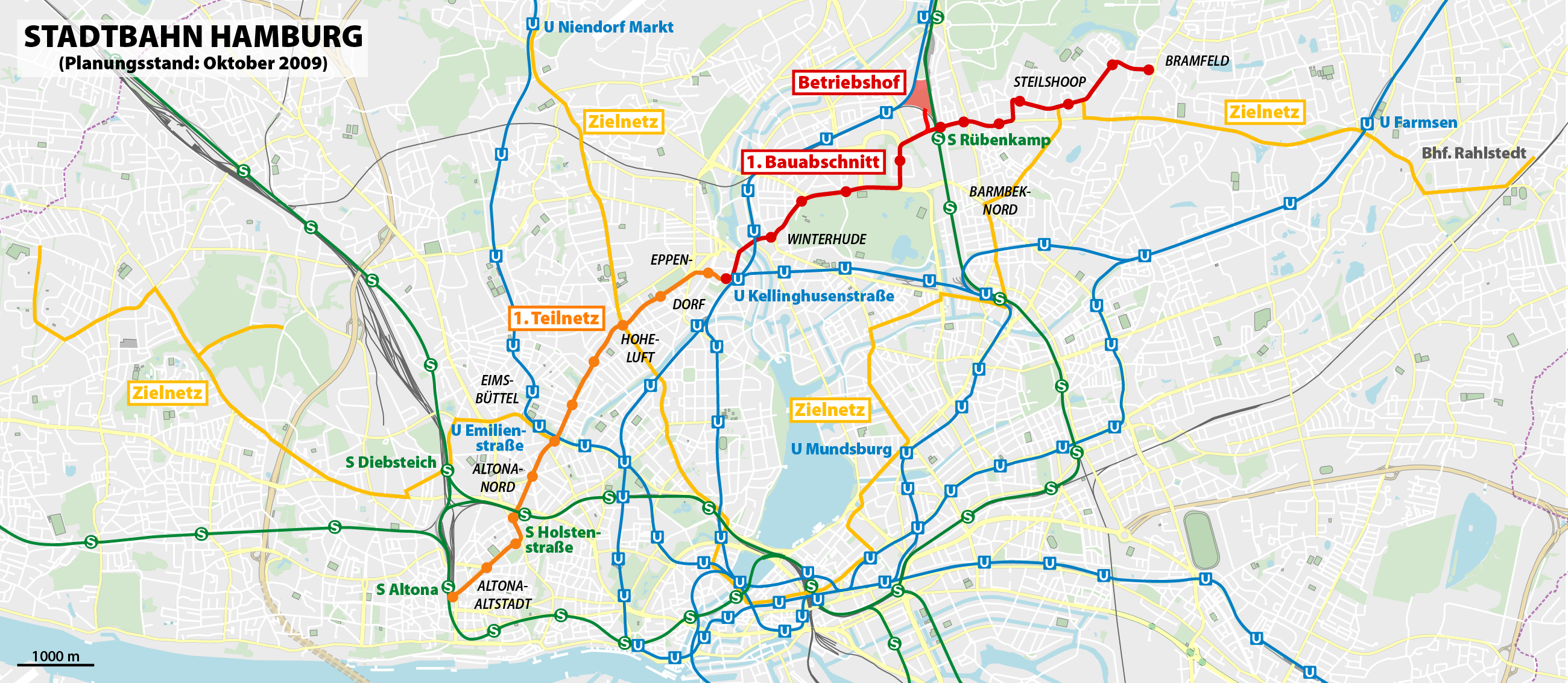 Map of planned Stadtbahn in Hamburg This map may be incomplete, and may contain errors. Don't rely solely on it for navigation.